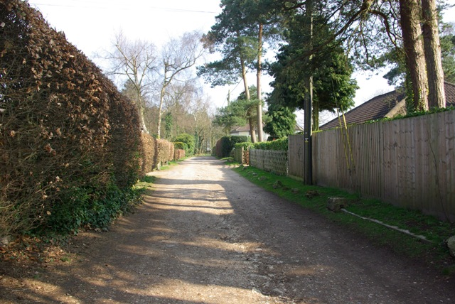 Unmade road, Headley Down. One of several in this part of this residential development.